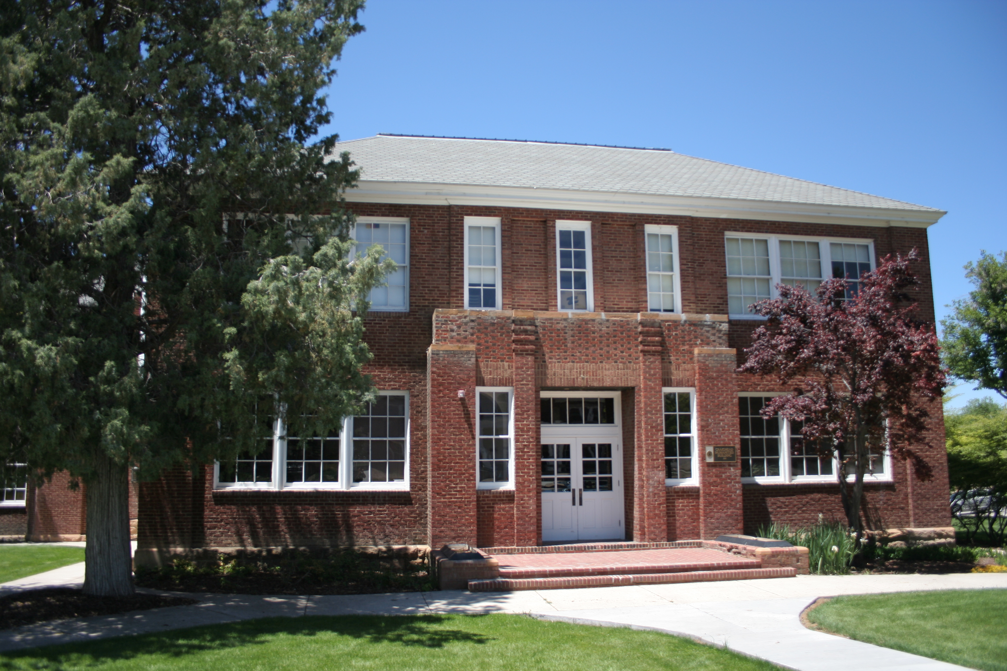 The Craighead Humanities Building at Wasatch Academy, built 1935